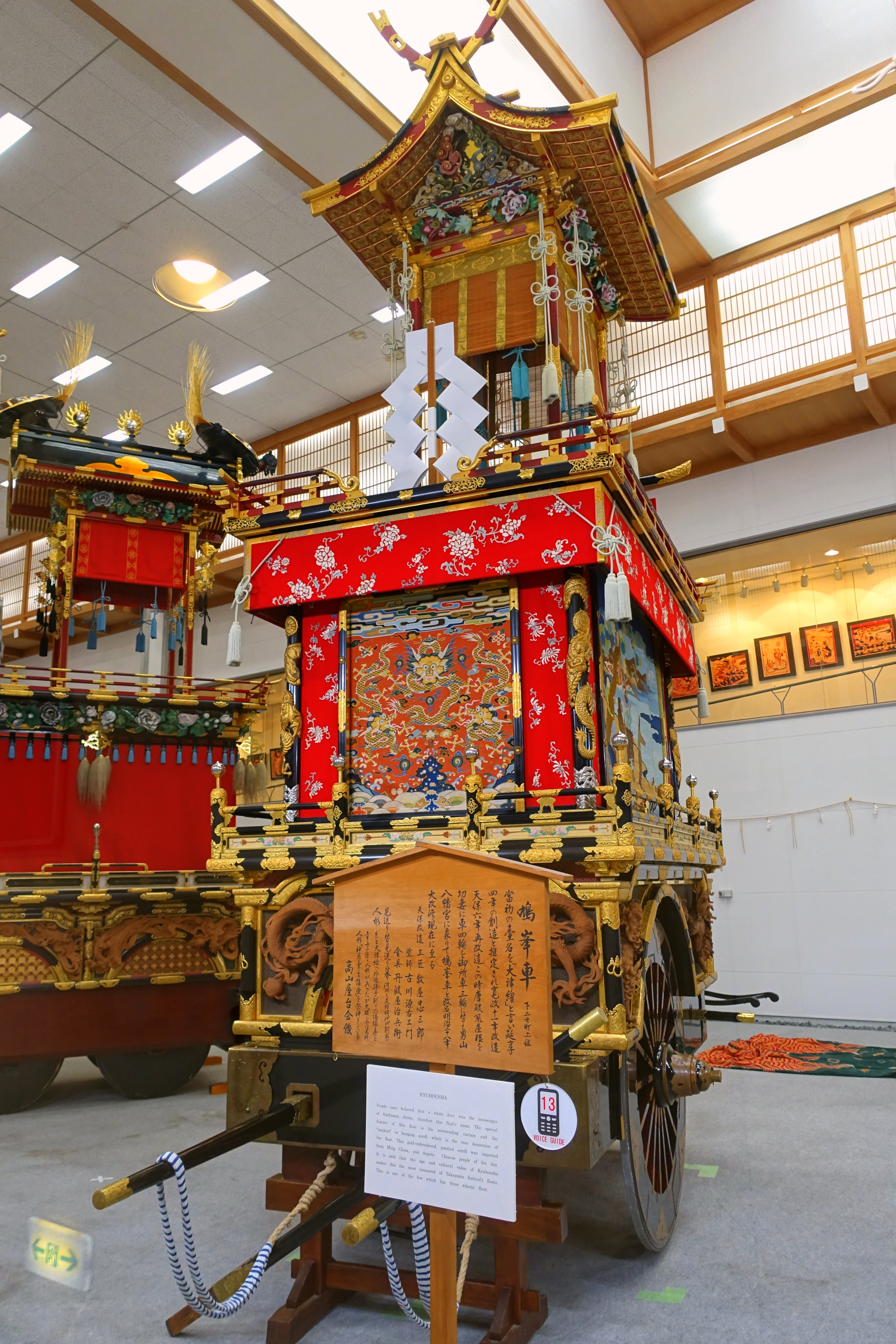 Takayama Festival Float Exhibition Hall (高山祭屋台会館) - Takayama, Gifu, Japan.